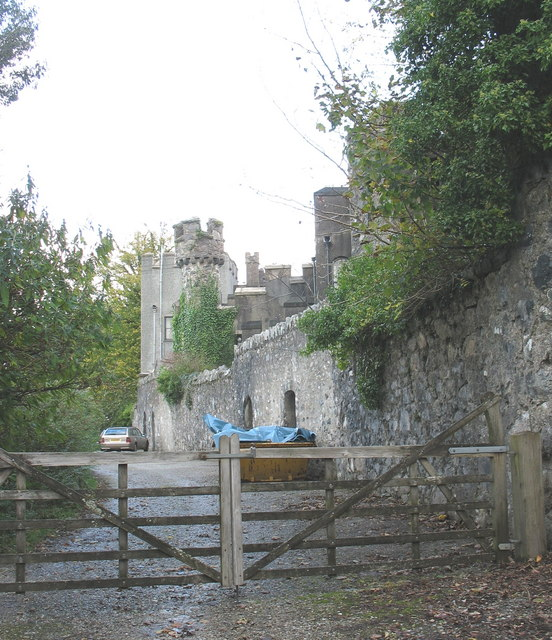 Castell Bryn Bras Castle This Grade II* listed building was designed by Thomas Hopper, the architect who also designed Penrhyn Castle, for Thomas Williams, a Welsh speaking solicitor. The most famous owner of the castle was Duncan Elliot Alves (1870-1947) whose name became synonymous locally with sumptuous living. When I was young anyone looking for extra comforts or sitting down on the job would be challenged with the words 'Who do you think you are, Mr Alves'. Duncan Alves, however was a generous patron of local brass bands and football teams.